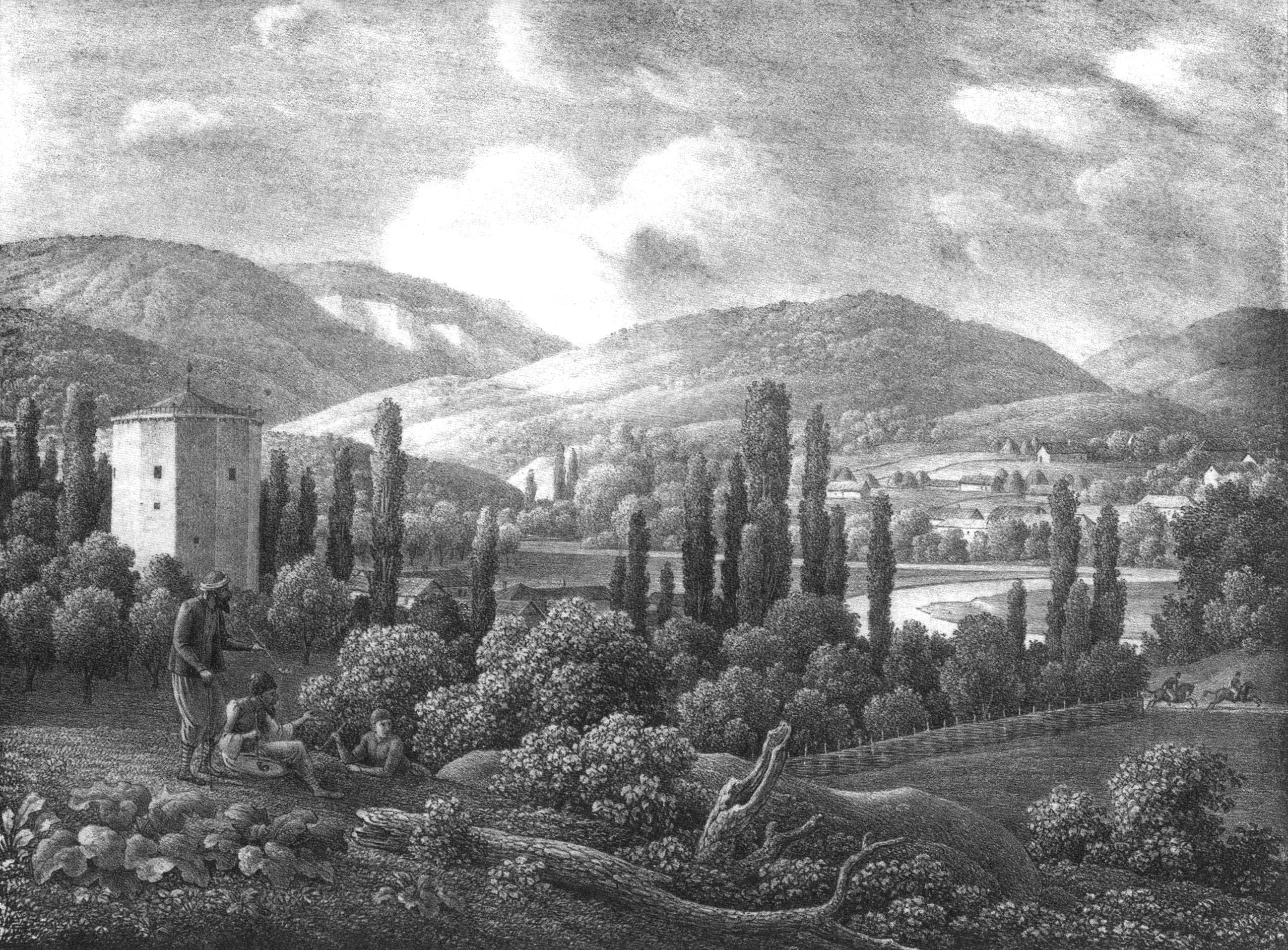 Chorgun. Lithography K. Kyugelhena. early. XIX century.